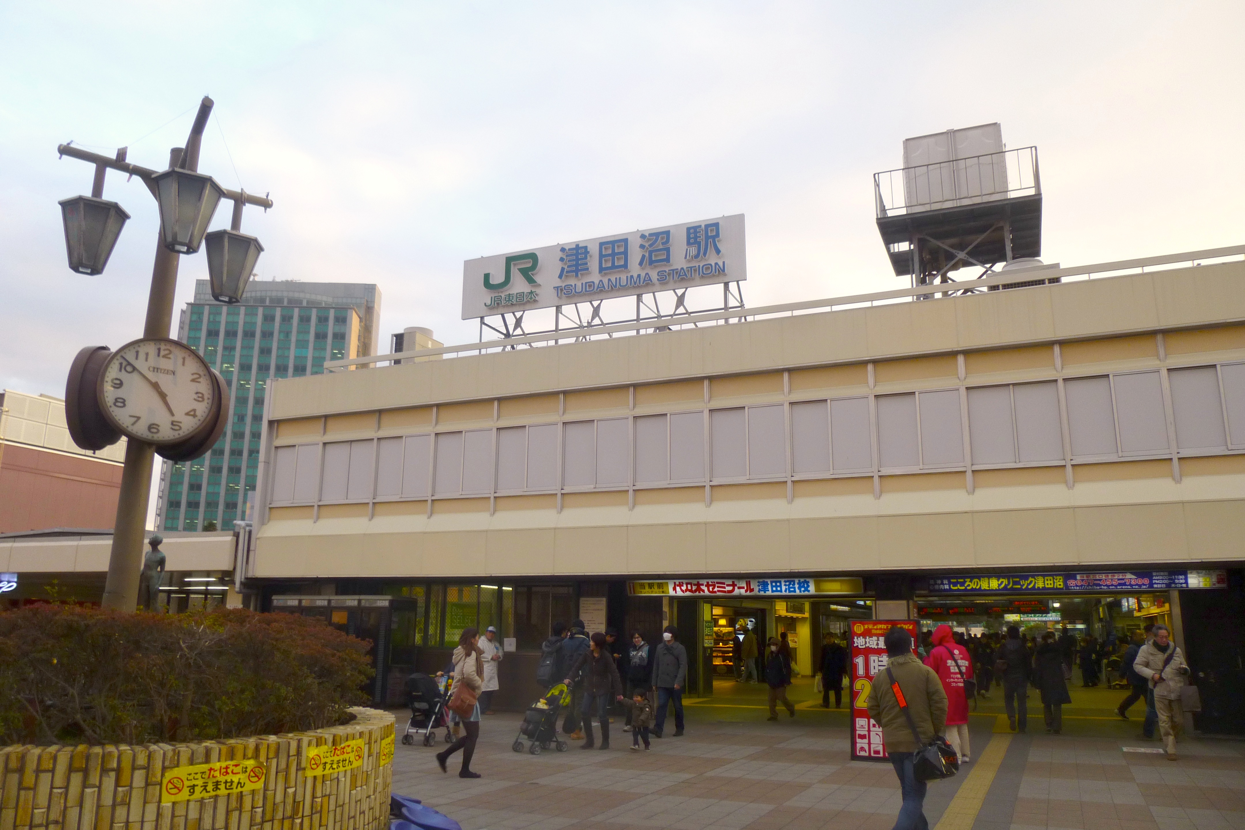 Tsudanuma Station entrance